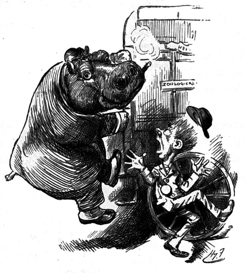 Illustration by Harry Furniss in Sylvie and Bruno